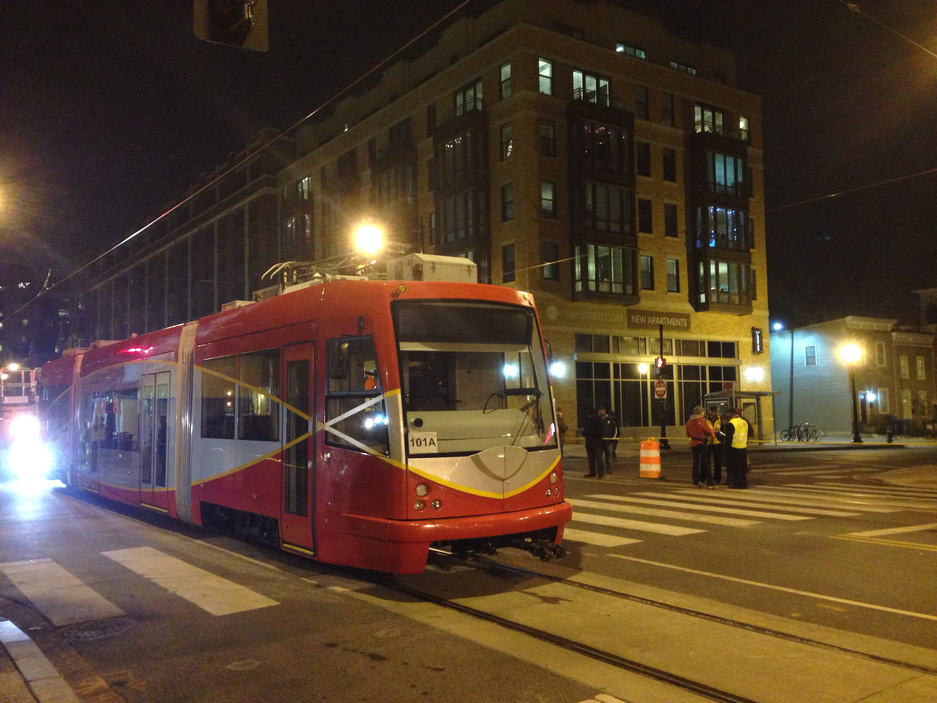 First streetcar on DC streets since 1963.